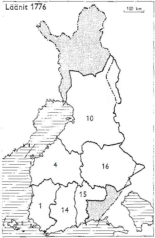 Finnish counties 1776 1 Åbo and Björneborg, 14 Nyland and Tavastehus, 15 Kymmenegård, 16 Savolax and Karelia, 4 Vasa, 10 Uleåborg